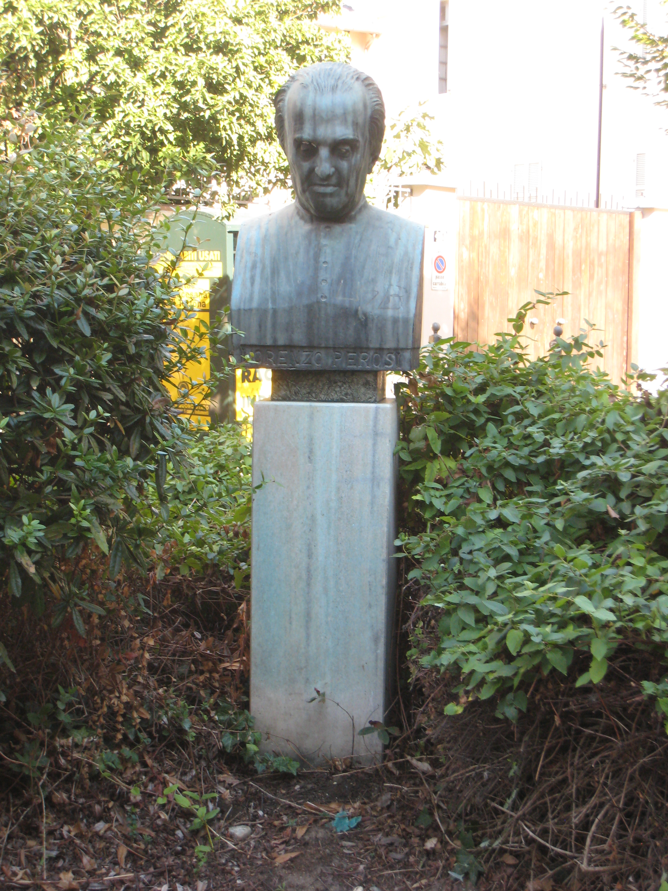 Lorenzo Perosi's bust in Tortona city centre.